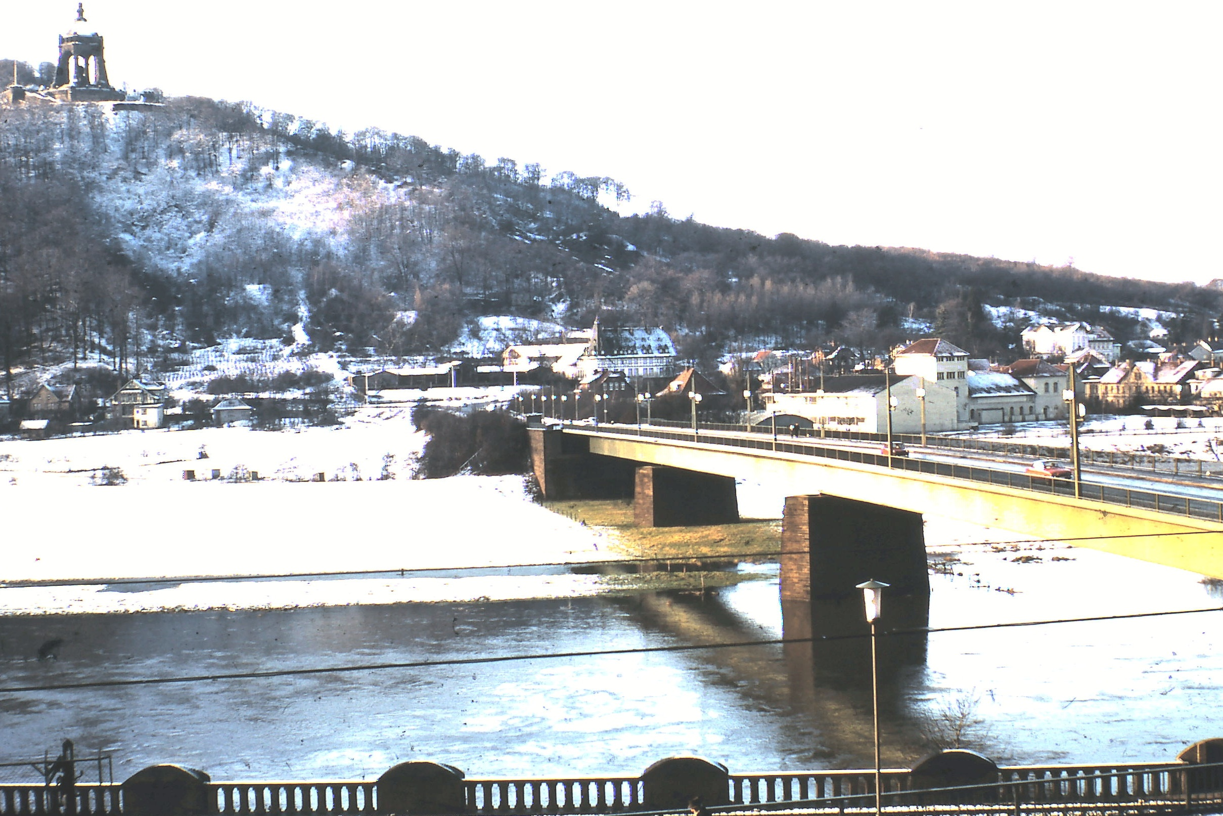 View to the Kaiser-Wilhelm-Denkmal on the Wittekindsberg in Porta Westfalica, Germany